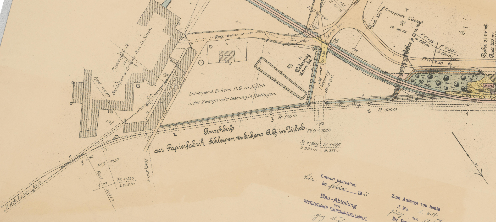 Track layout on Schleipen & Erkens industrial area in Koslar 1911